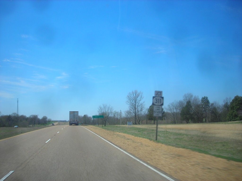 U.S. Route 72 westbound approaching Mississippi Highway 311 in Mt. Pleasant, Mississippi